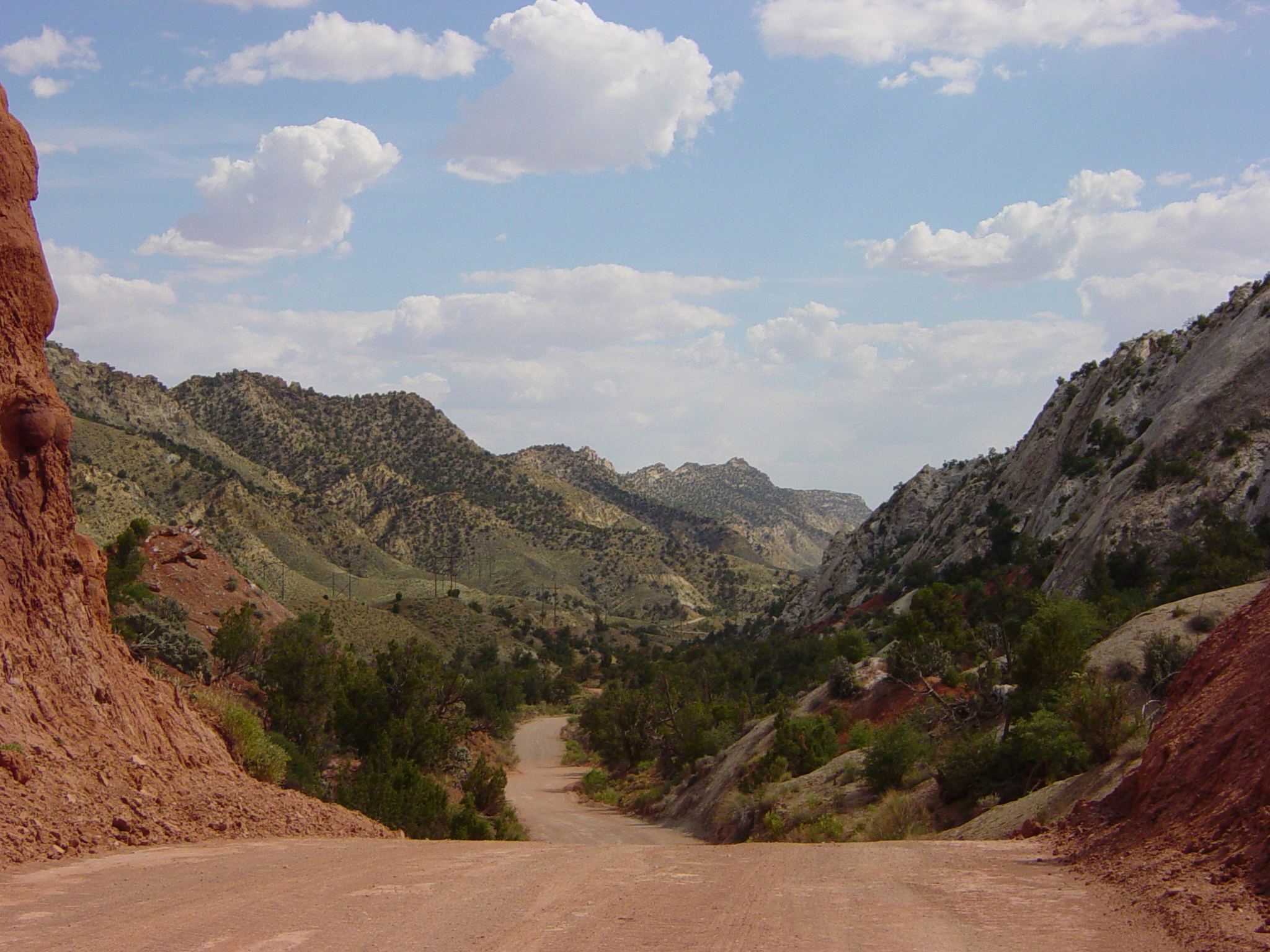 Cottonwood Canyon, view south. Image by User:Leonard G.